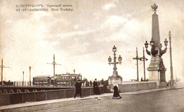 Trinity Bridge in 1900s